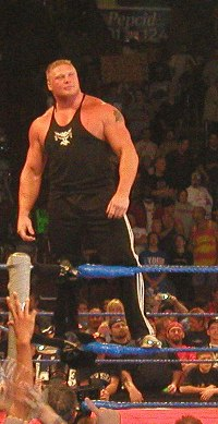 Brock Lesnar This picture is not copyrighted. I took it with my digital camera.